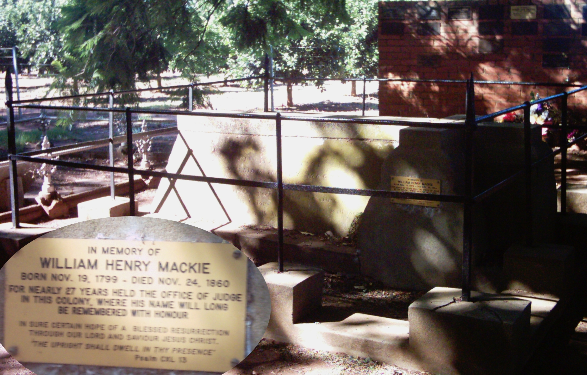 Grave William Henry Mackie All Saints Church, insert is plaque from grave which shows the original inscription which though visible is showing the effects of weathering